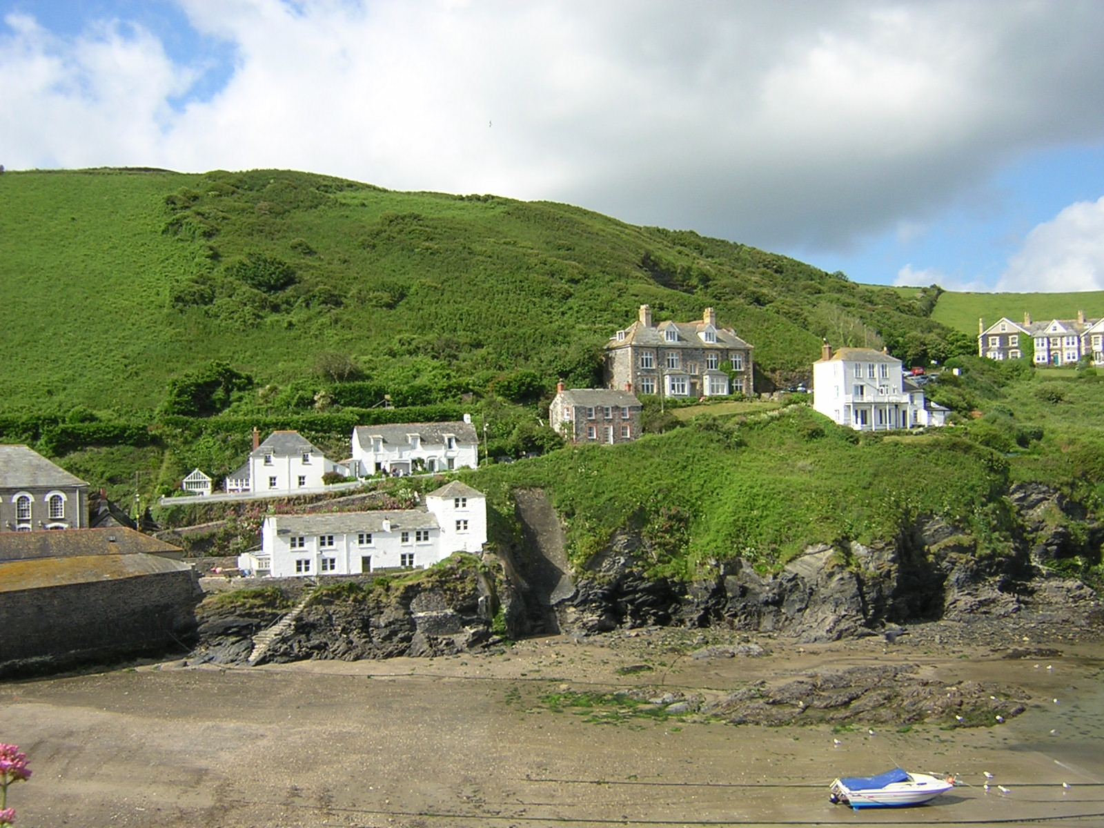 I took this photo myself when on holiday